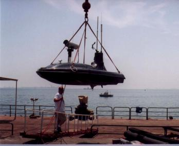 "OWL" type surface ROV used to detect submerged divers. Copied from [1](page 14), and brightened.